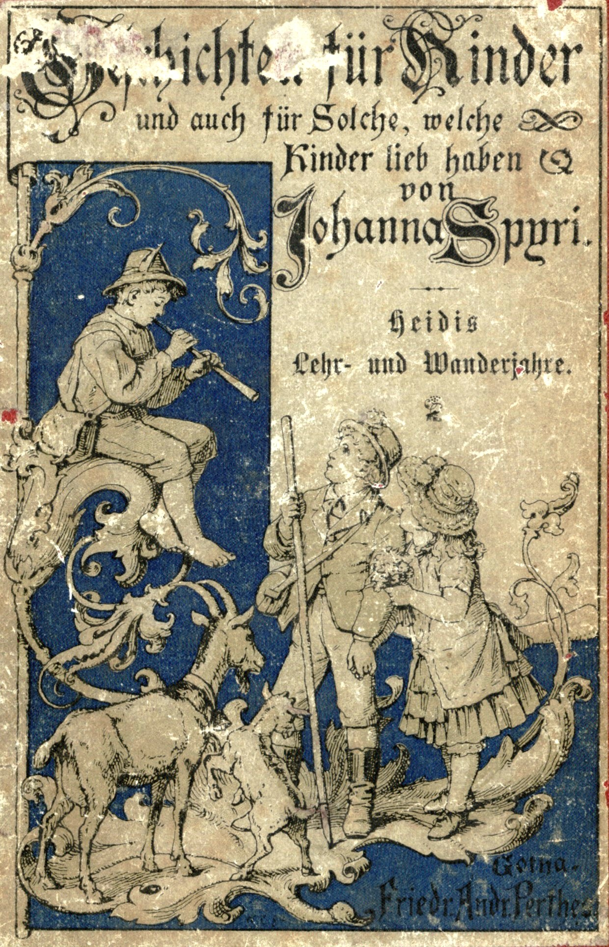 This image shows the cover of the 8th edition of a book named "Heidis Lehr- und Wanderjahre", written by Johanna Spyri and published 1887 by Friedrich Andreas Perthes, Gotha.